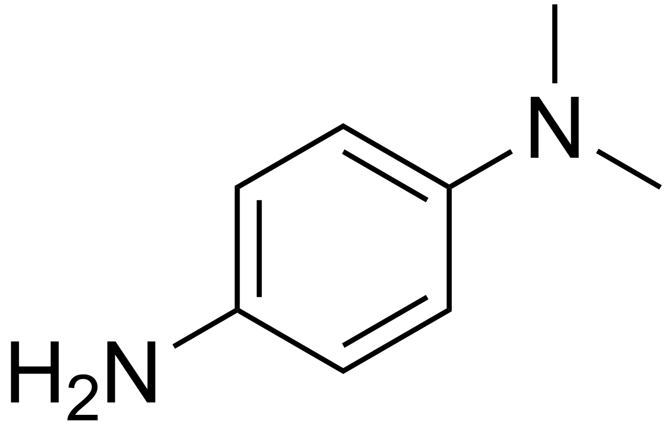 chemical structure of Dimethylphenylenediamine (dimethyl-4-phenylenediamine; N,N-dimethylbenzene-1,4-diamine)